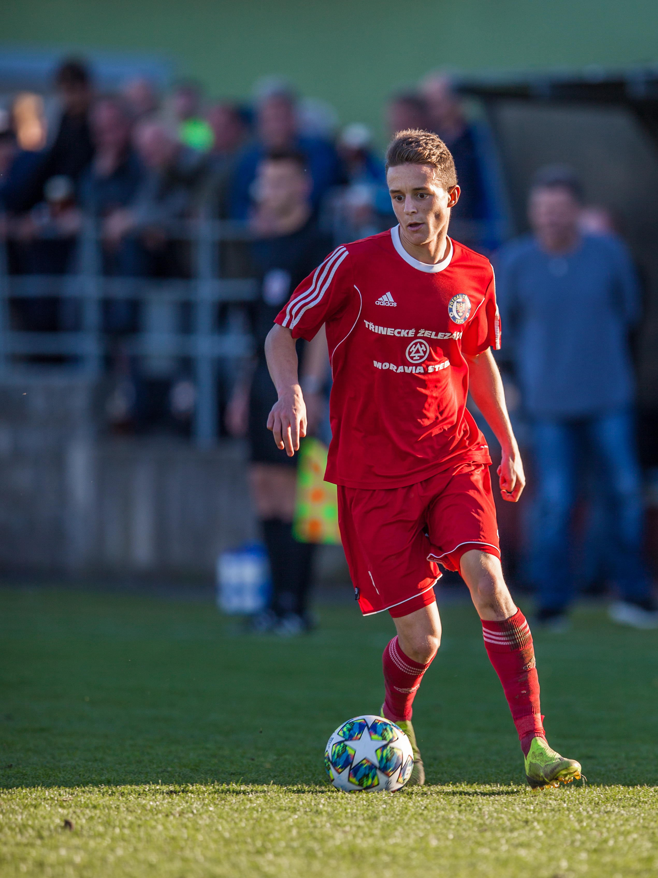 Moravian-Silesian Division F match between SK Dětmarovice and FK Třinec B 12 October 2019 in Dětmarovice, Karviná District, Moravian-Silesian Region, Czechia